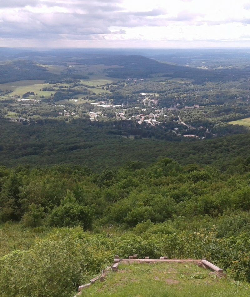 View of Stamford (village), New York from top of Utsayantha Mountain. Taken June 2019.